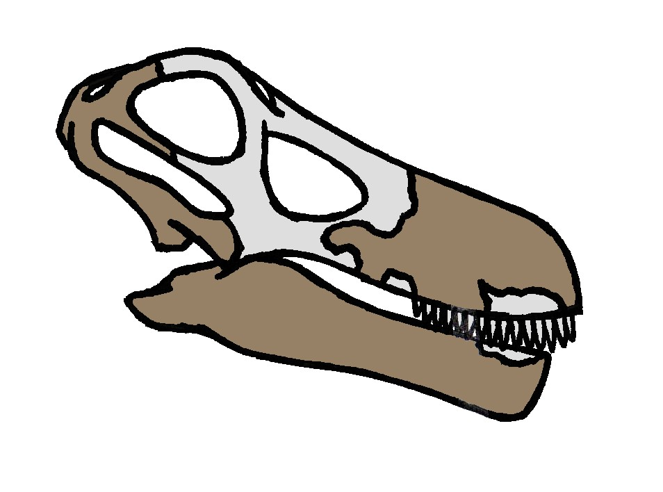 Skull of the sauropod dinosaur Quaesitosaurus ( Mongolia ). Missing pieces of skull in light grey.